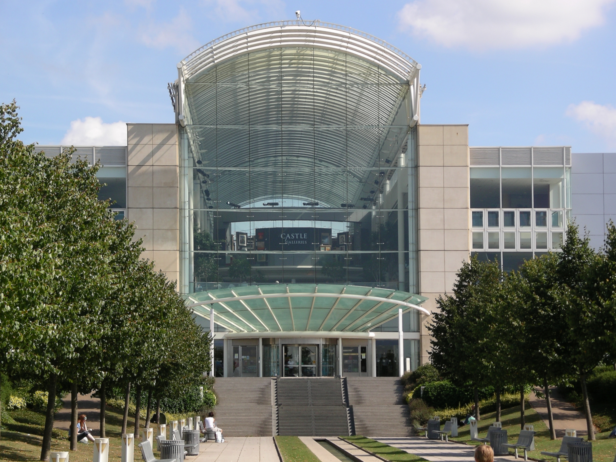 Cribbs Causeway retail park, Bristol. The central atrium from the south